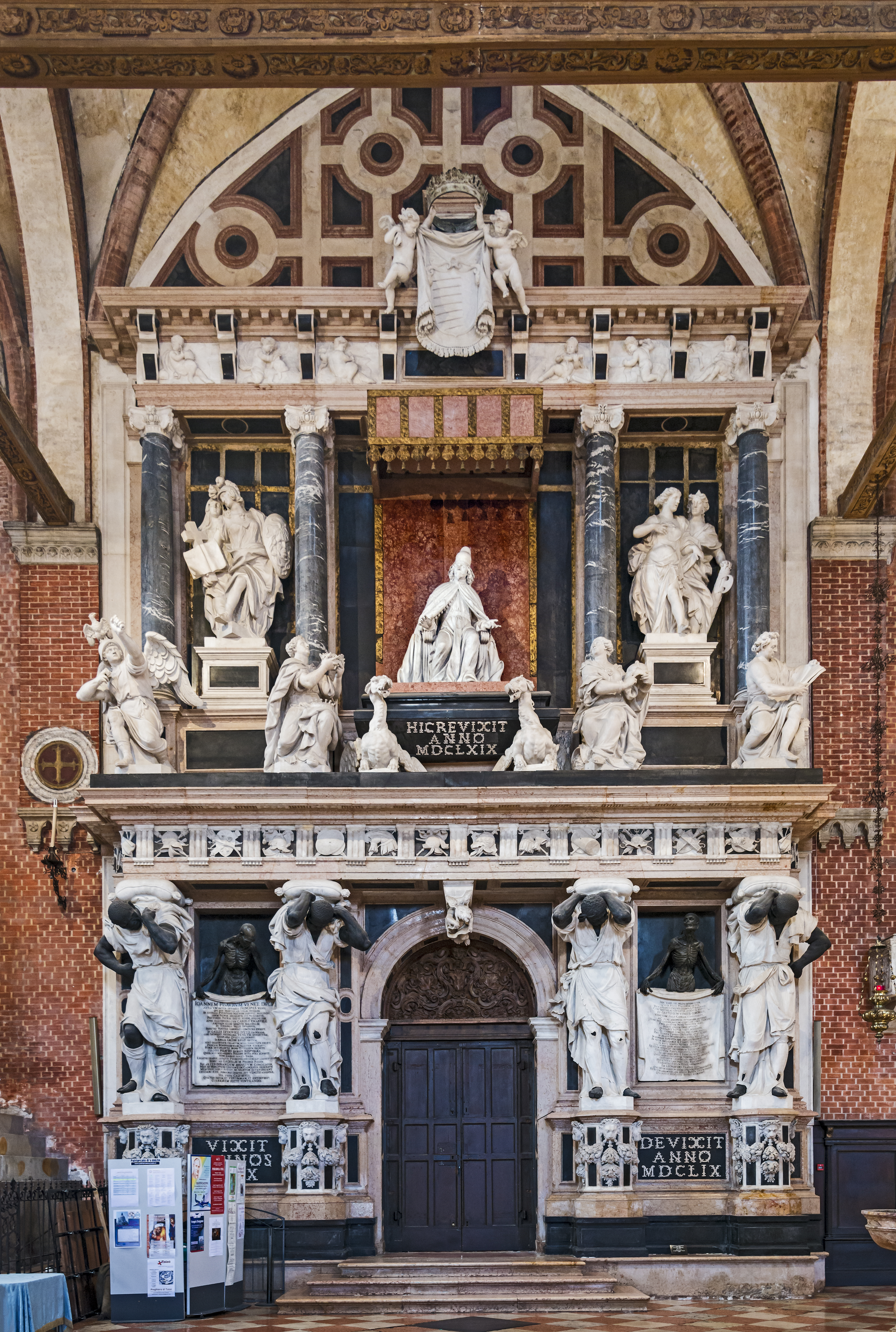 The Basilica di Santa Maria Gloriosa dei Frari, monument of Doge Giovanni Pesaro. The monument was commissioned by the Doge Leonardo Pesaro nephew. It was built from 1665 to 1669. The Doge had left 12,000 ducats for its realization. The Project Manager was chosen Baldassarre Longhena. The many sculptures of Melchior Barthel of Dresden Josse de Corte, with Francesco Cavrioli and Michele Fabris. One has to Cavrioli two bronze skeletons. Michele Fabris carved the two dragons, symbols of eternity. Corte was responsible for little angels holding the weapons of the family, the statue of Giovanni Pesaro, and the four entwined allegories: Religion and the Value, left, Concorde and Justice, right. The following: Intelligence, Nobility, and Wealth Study, alluding to the achievements and merits of the Doge. The two digits representing: Religion Constance and then Truth and Justice were executed by Melchior Barthel.